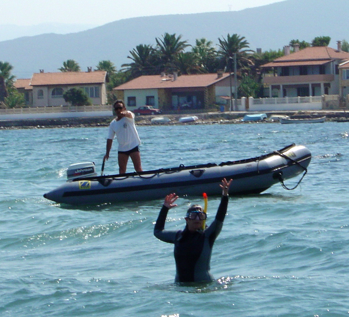 Professor Michal Artzy With Professor Avner Raban - Archaeologists from Haifa University. Israel This work is free and may be used by anyone for any purpose. If you wish to use this content, you do not need to request permission as long as you follow any licensing requirements mentioned on this page.